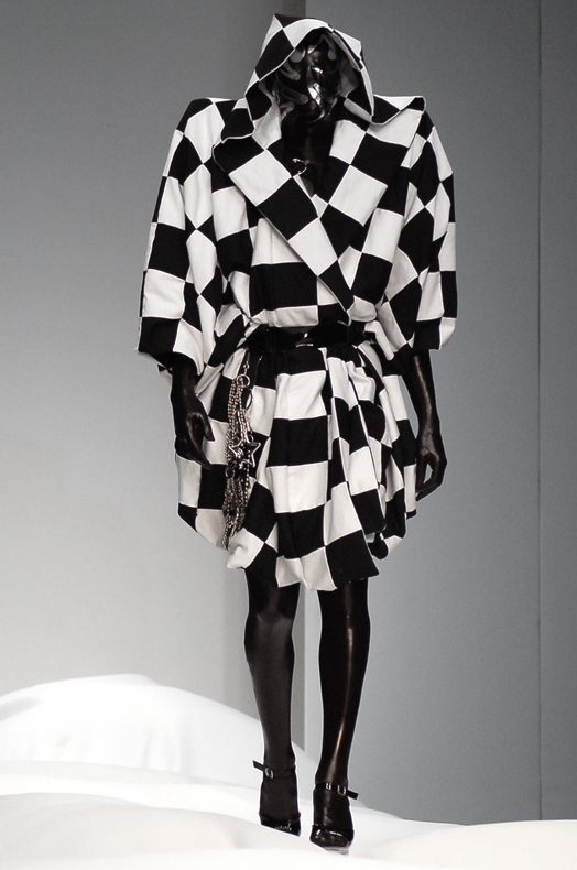 Gareth Pugh design (Spring 2007 collection) at London fashion Week